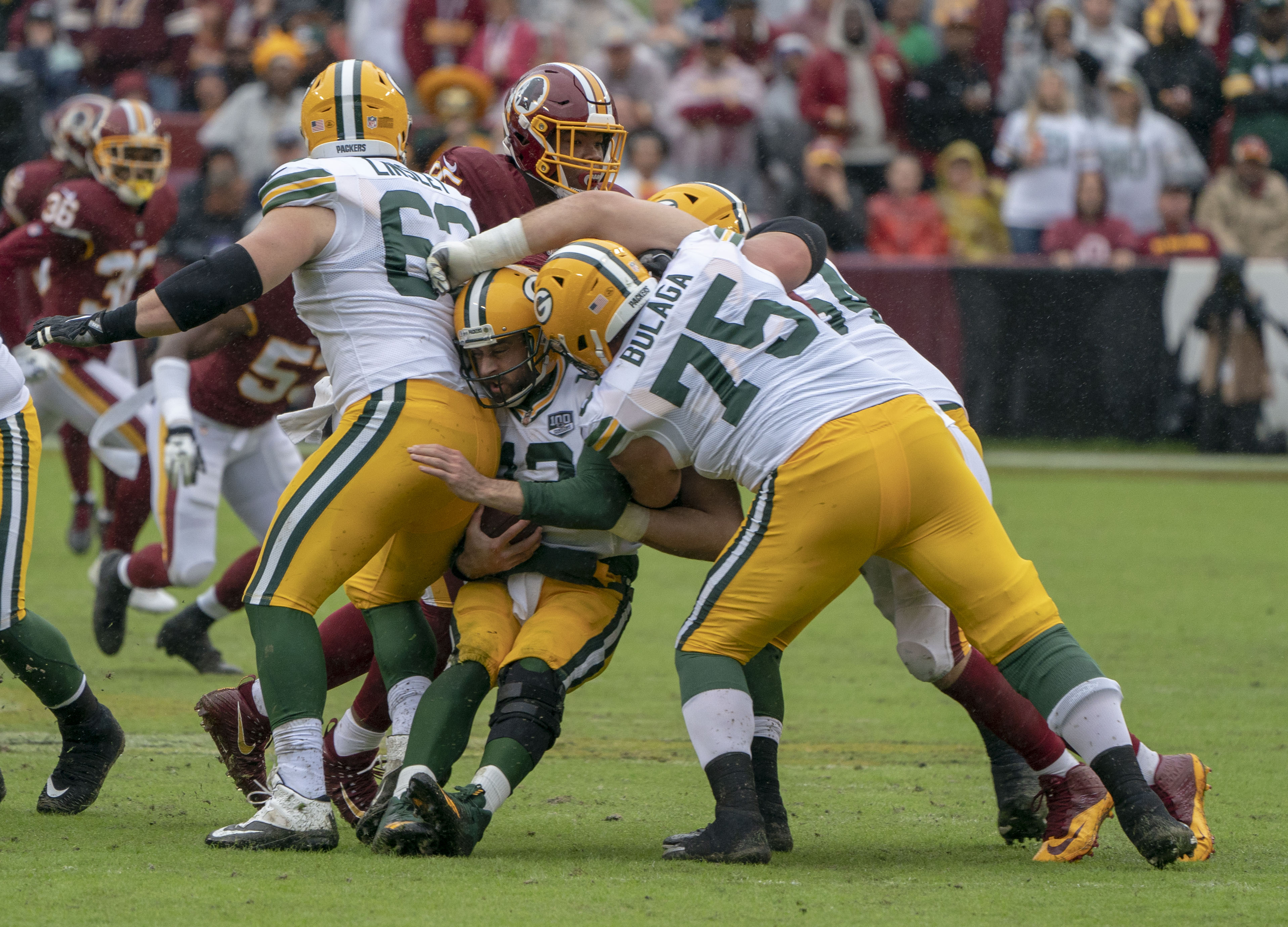 Aaron Rodgers of the Green Bay Packers during a game against the Washington Redskins at FedExField on September 23, 2018 in Landover, Maryland.